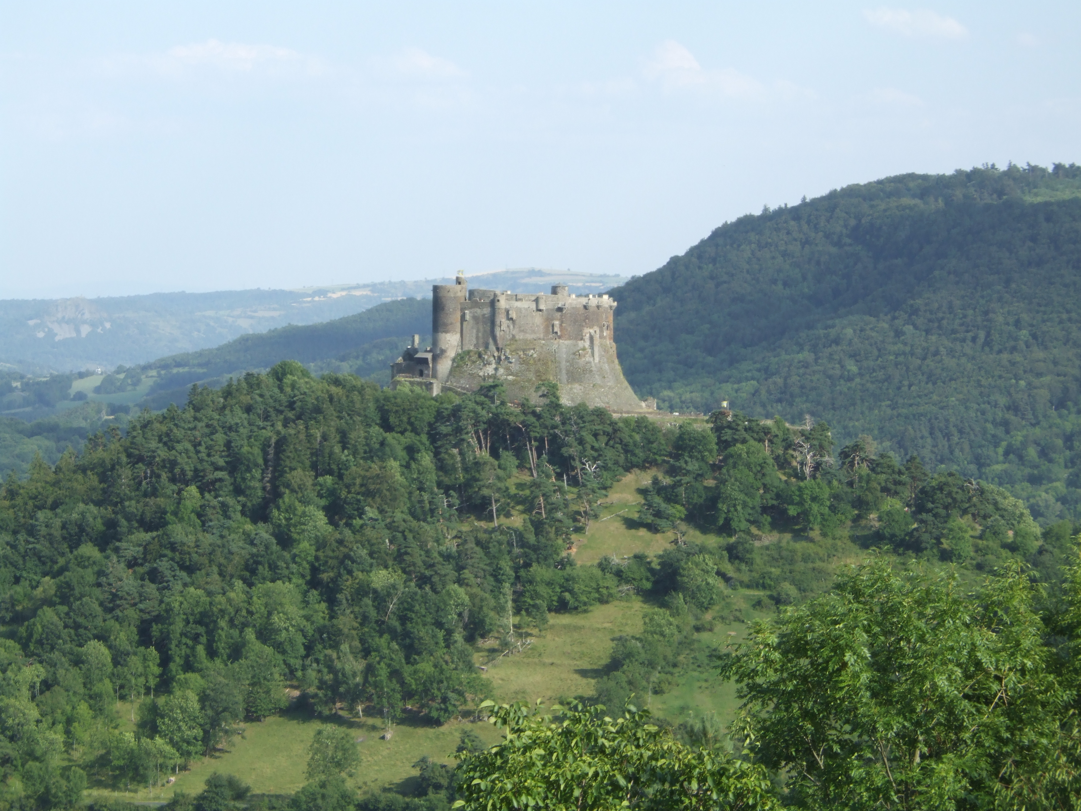 Castel of Murol (France - Auvergne)